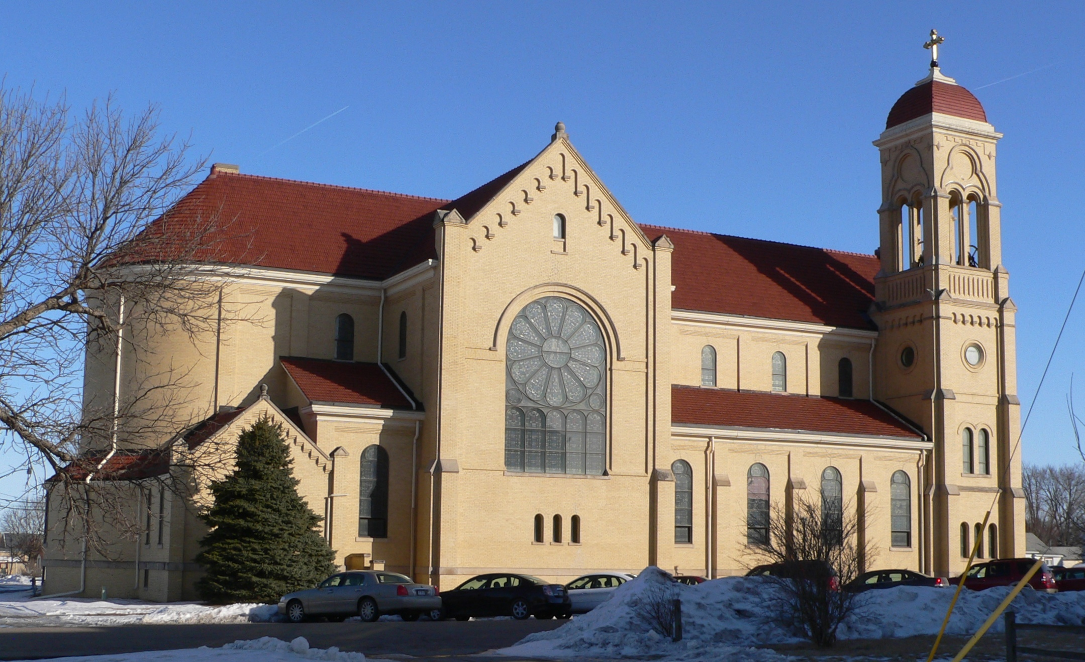 St. Anthony's Church in Cedar Rapids, Nebraska; seen from the west. The Romanesque revival church was designed by architect Jacob Nachtigall and built in 1919. The church and the neighboring St. Anthony's School are listed in the National Register of Historic Places.